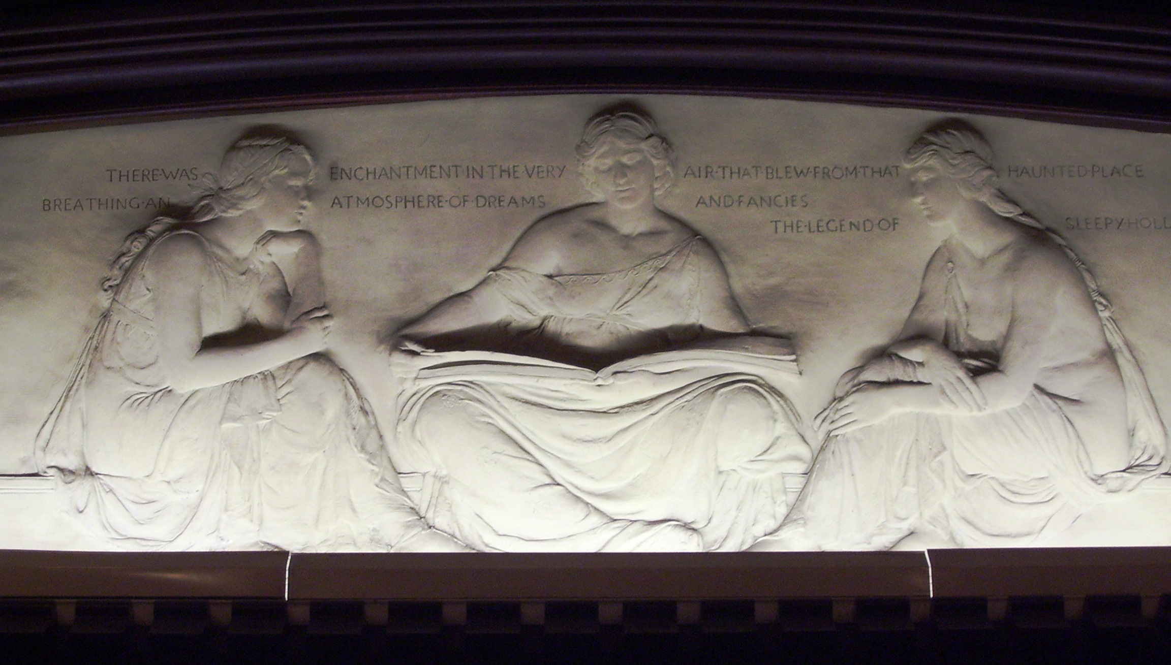 The Legend of Sleepy Hollow (plaster, 1915) by Frances Grimes.[1][2] A detail from the lobby of Washington Irving High School at 40 Irving Place in Manhattan, New York City. The building was built in 1913 and was designed by C.B.J. Snyder.